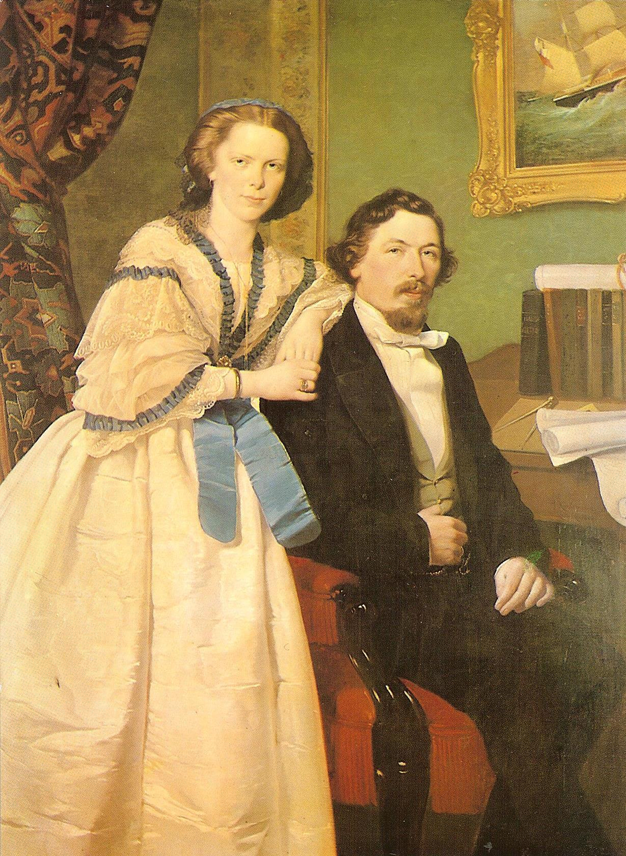 Schiffszimmermeister Meyer und Seine Frau Lübeck 1860, INv.-Nr. 1918/96